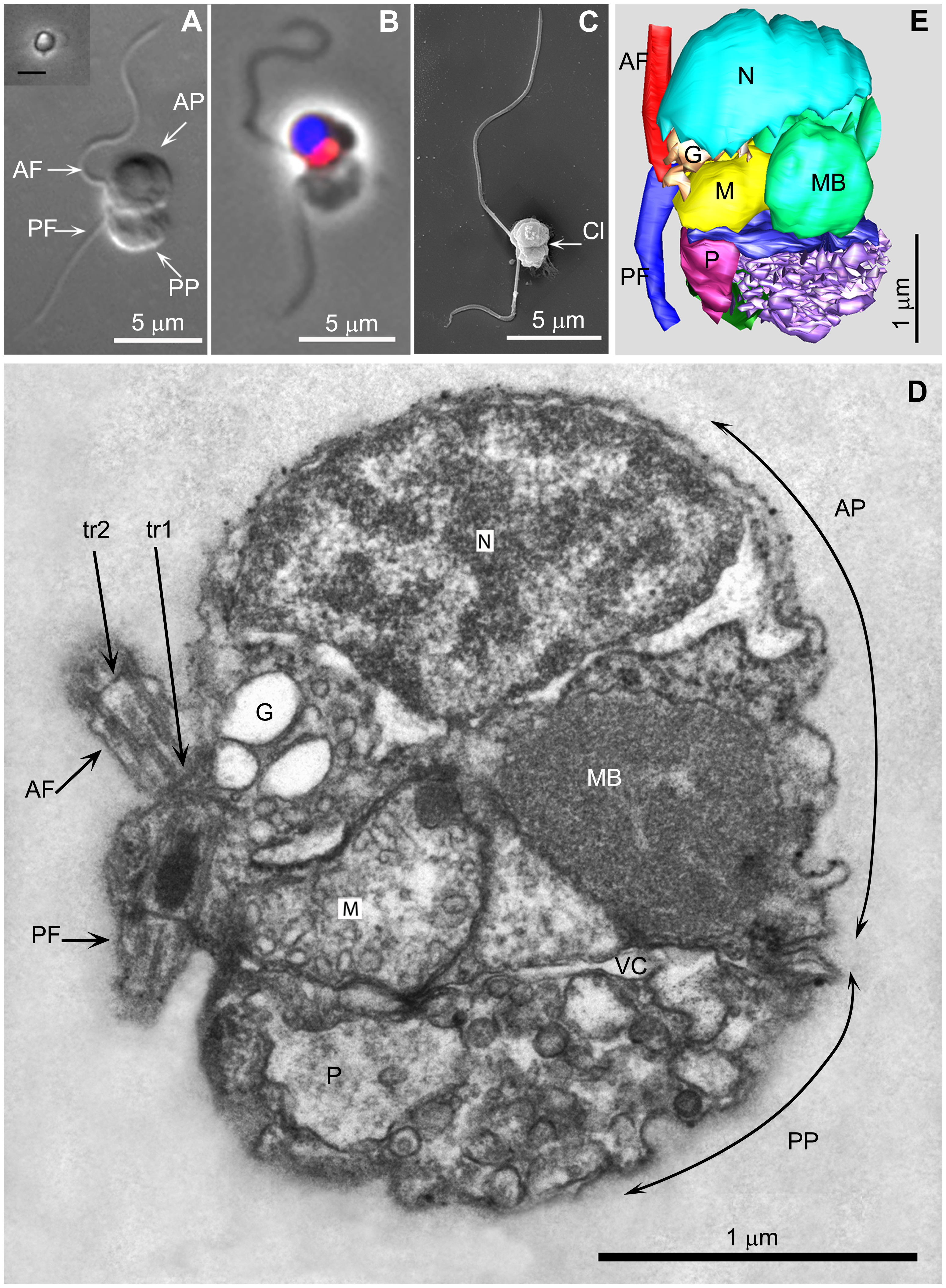 A Picomonas cell. A. Differential interference contrast of a chemically fixed cell. Inset shows phase contrast image of a live cell from tissue culture flask photographed with an inverted microscope (Scale bar 5 µm). B. Fluorescence and phase contrast overlay, nucleus (blue), mitochondrion (red). C. SEM image. D. A longitudinal section through a cell in the plane of the flagella, viewed from the cell’s left. E. A 3 D serial section reconstruction of the cell depicted in 2D. AF/PF (anterior−/posterior flagellum); AP/PP (anterior/posterior part of the cell); G (Golgi body); M (mitochondrion); MB (‘microbody’); N (nucleus); tr1,tr2 (distal [tr2] and proximal [tr1] flagellar transitional regions); P (posterior digestive body); Cl (cleft separating the anterior from the posterior part of the cell); vc (vacuolar cisterna).